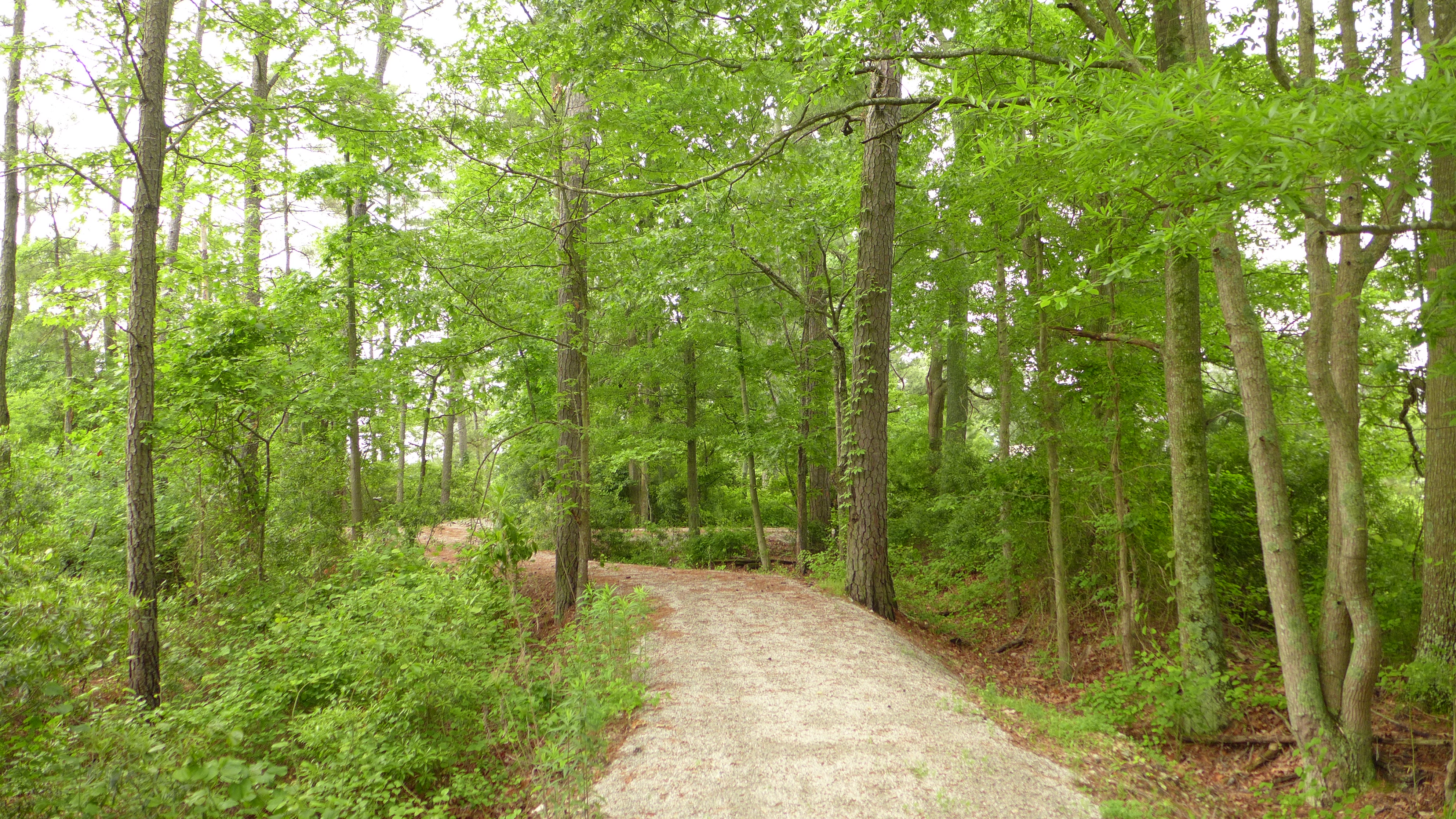 View from the Poquoson, Virginia Museum's marsh walk, opened April of 2013.